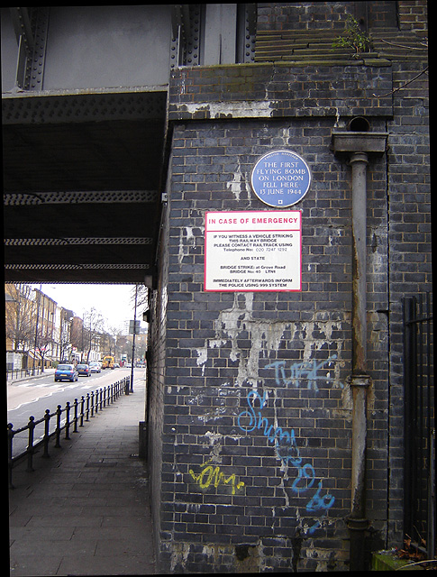 Grove Road railway bridge, Mile End, Tower Hamlets, London, showing V1 plaque.